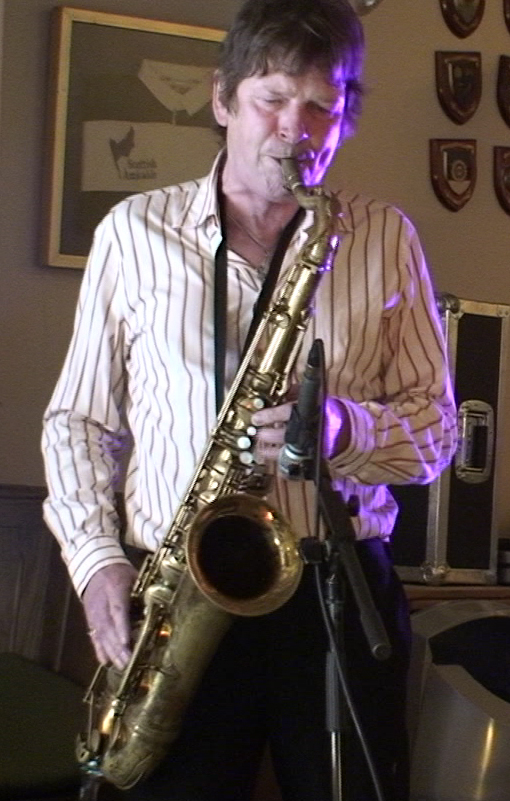 Mel Collins – British saxophonist, flautist and session musician. A still taken from an Acabashi filmed and authored HD video of a Kokomo performance at Barnes Rugby Club. Video still edited in Photoshop CS2.